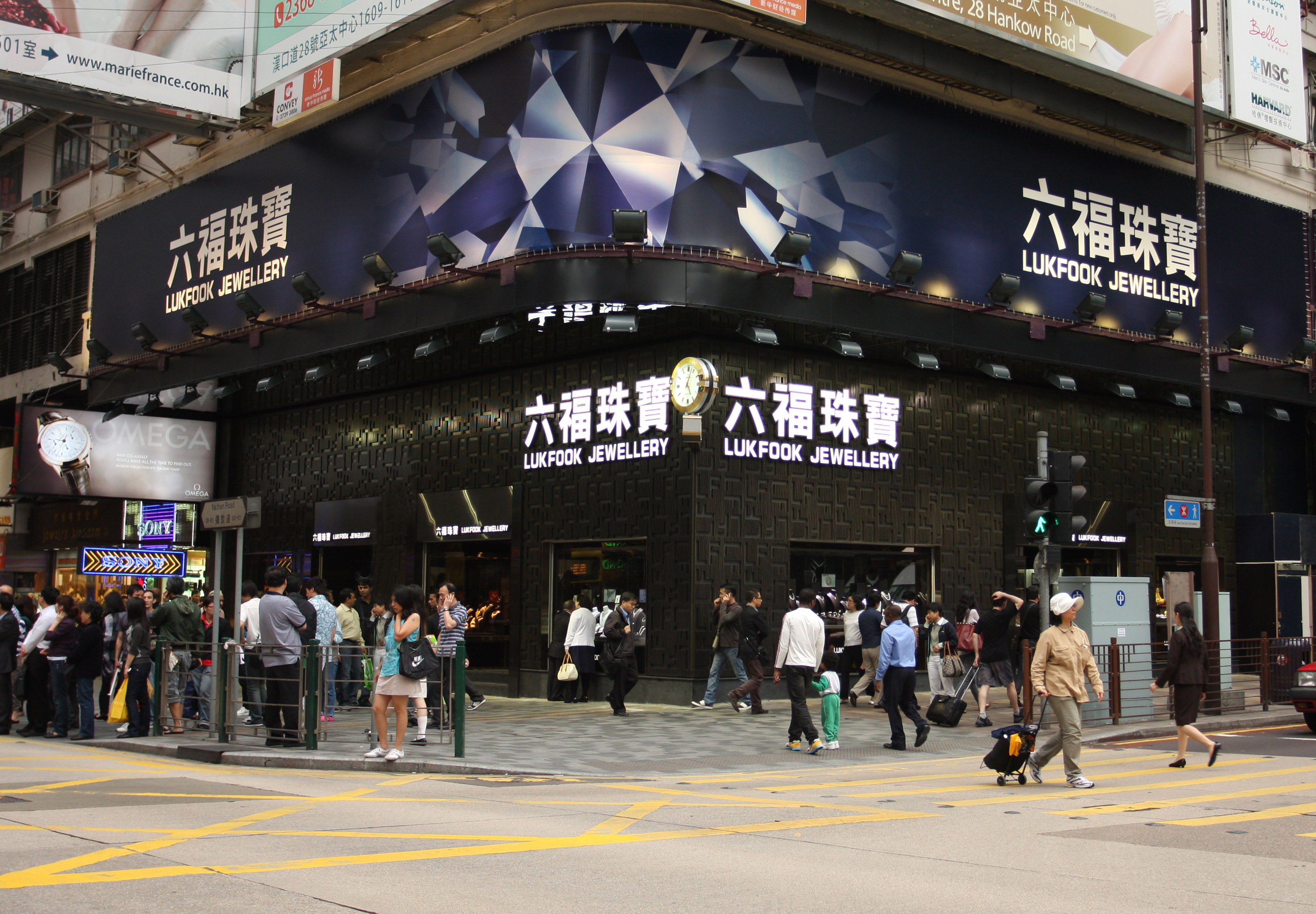 Flagship Store of Lukfook Jewellery at Tsimshatsui, Hong Kong